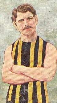 Sniders N Abrahams 1906 VFA Richmond C Backhouse. Note: Picture of Australian football player Charlie Backhouse, c1906, from a cigarette card.